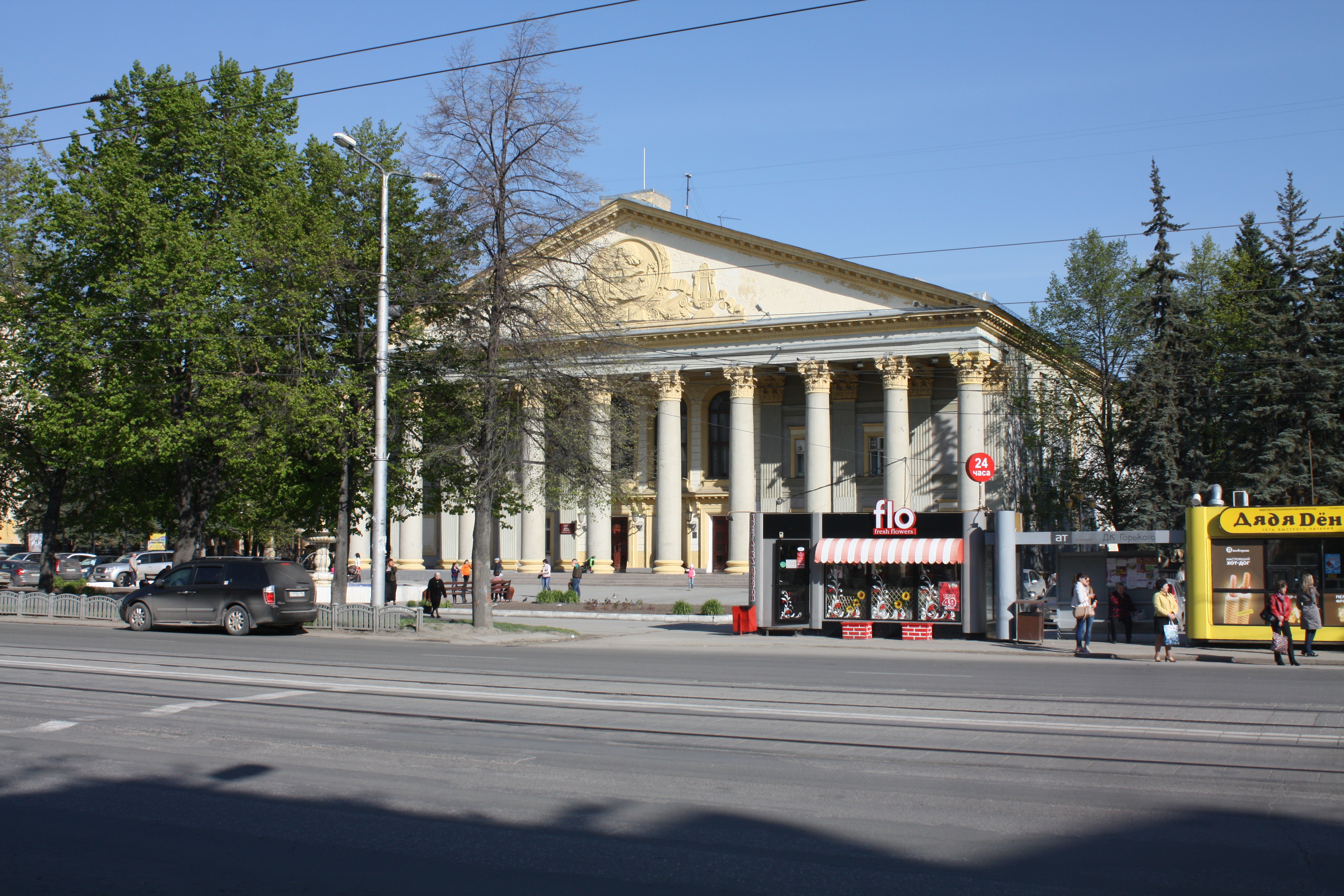 Gorky Palace of Culture, Kalininsky City District, Novosibirsk.